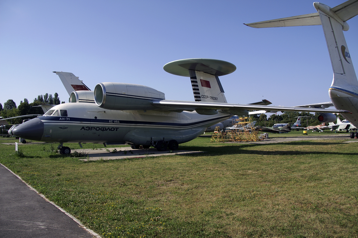 An Antonov An-71 on exhibition in Ukrainian State Aviation Museum in Zhulyany Airport, Kiev.